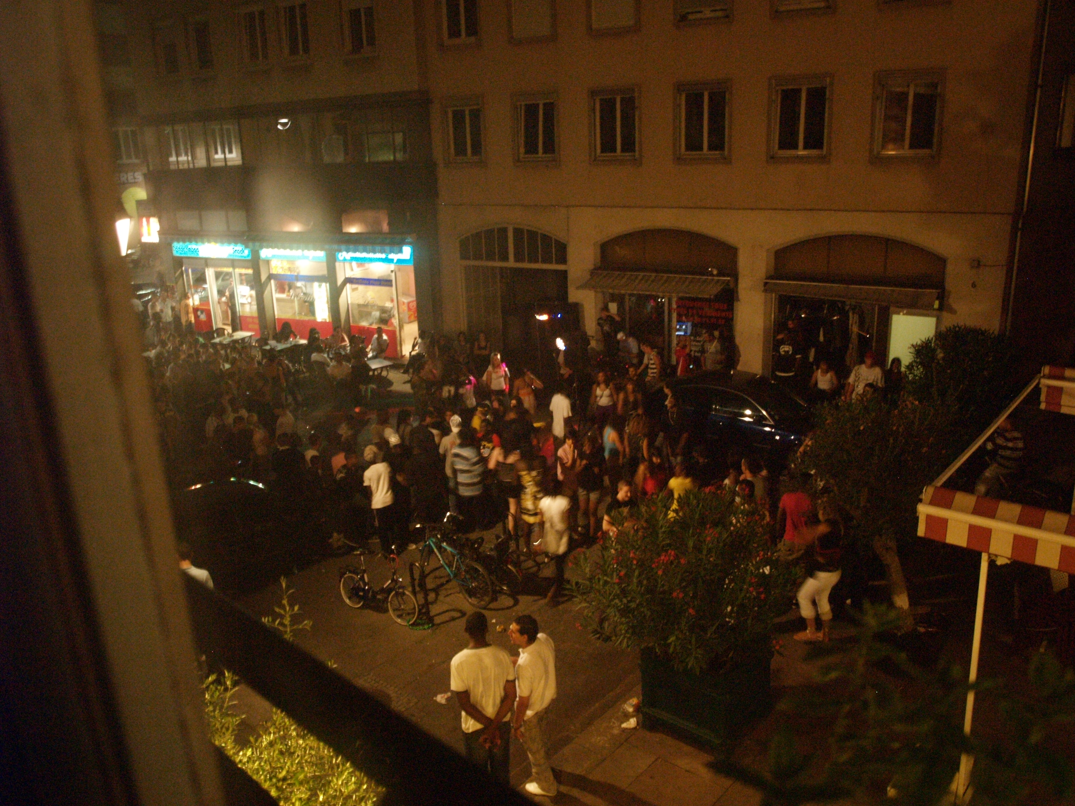 People during the "Fête de la musique" in Strasbourg